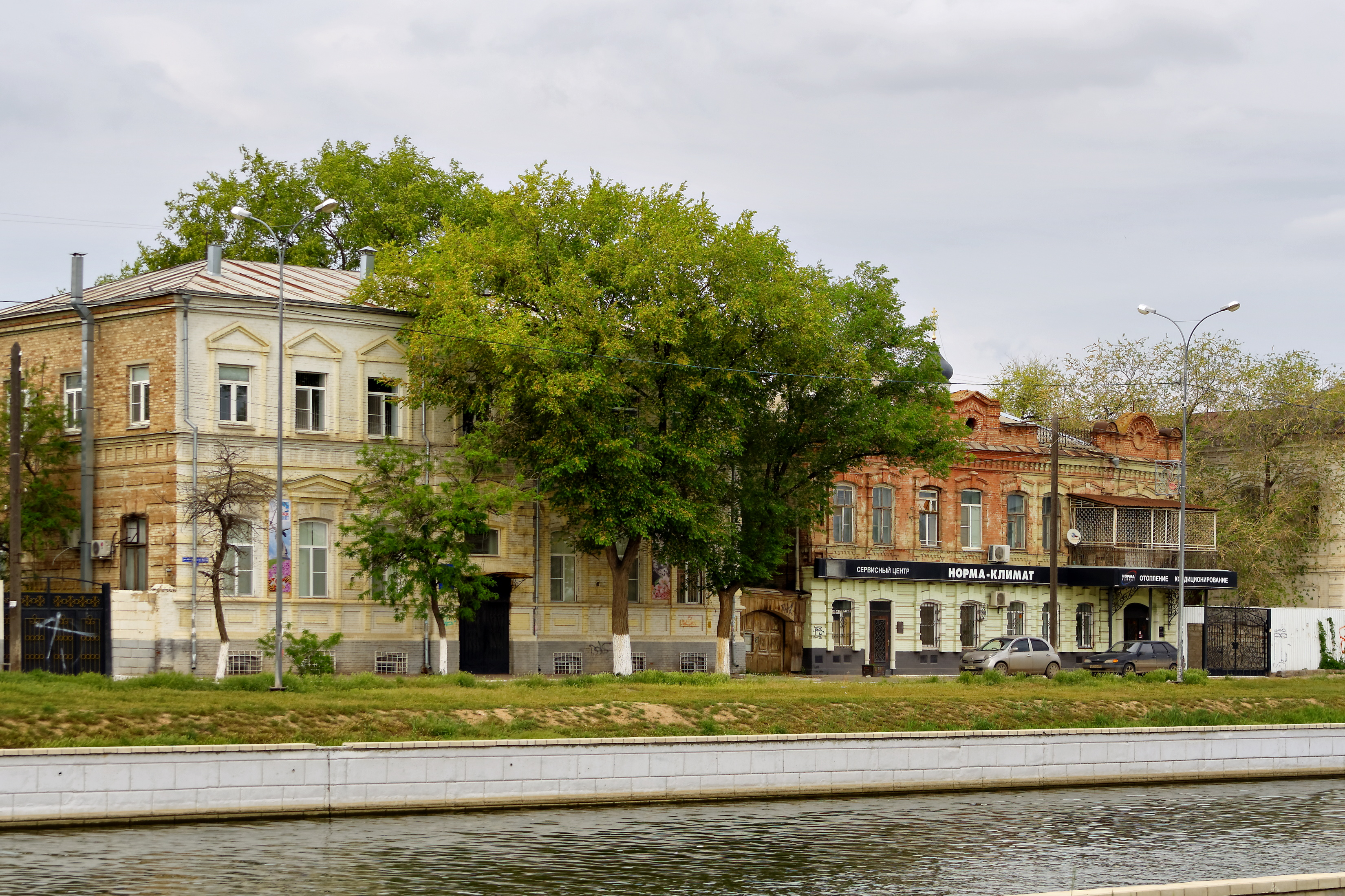 Astrakhan